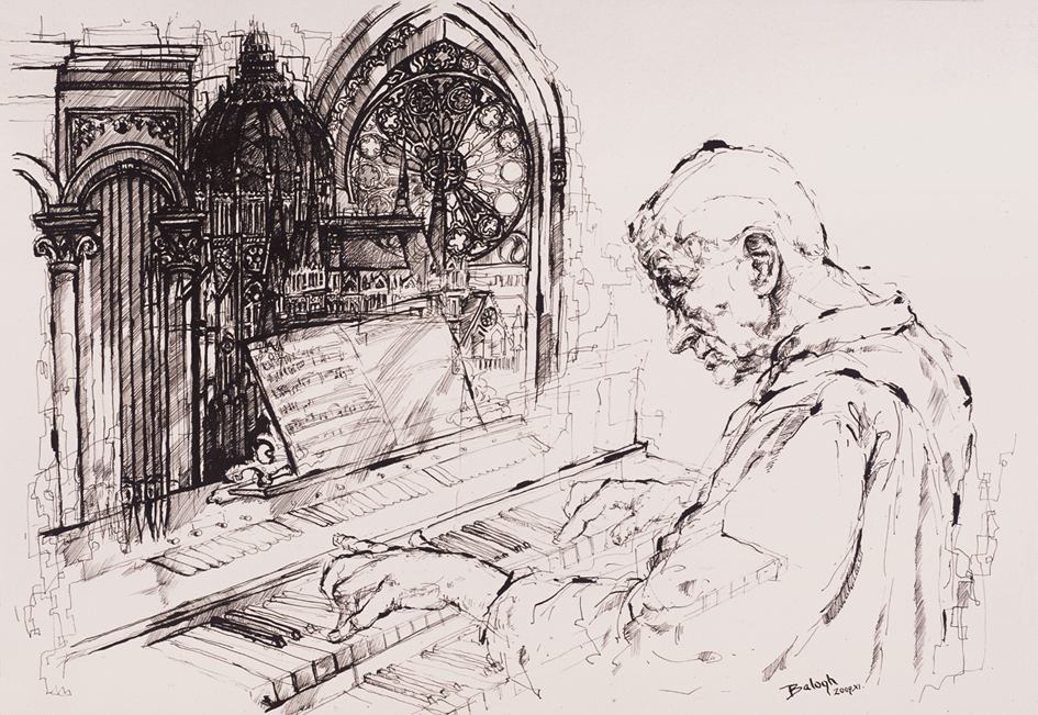 National anthem (ink on paper, 42x29 cm)